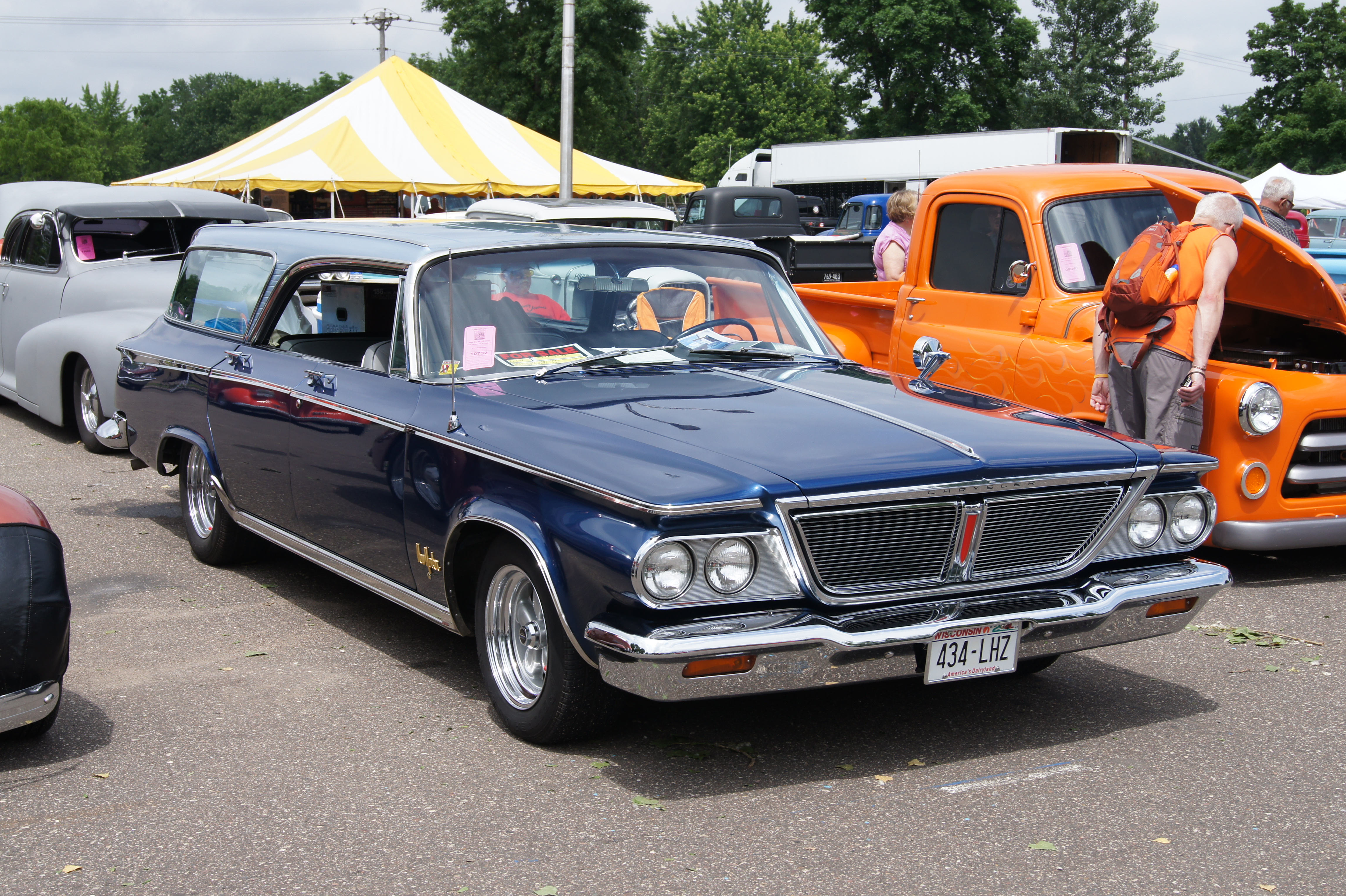 MSRA “BACK TO THE 50′s” 40th ANNIVERSARY June 21-23, 2013 State Fairgrounds St. Paul Minnesota More Car Pictures